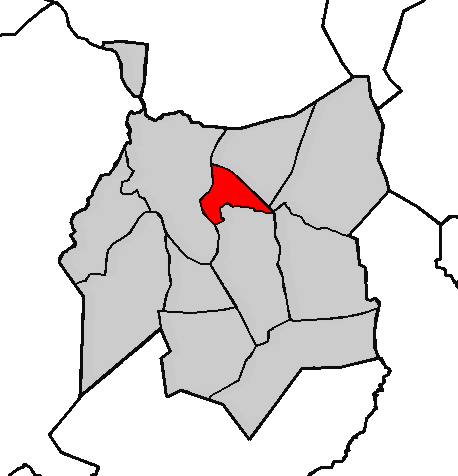 Location of the parish of Cela in the municipality of Cambre (Galicia, Spain)